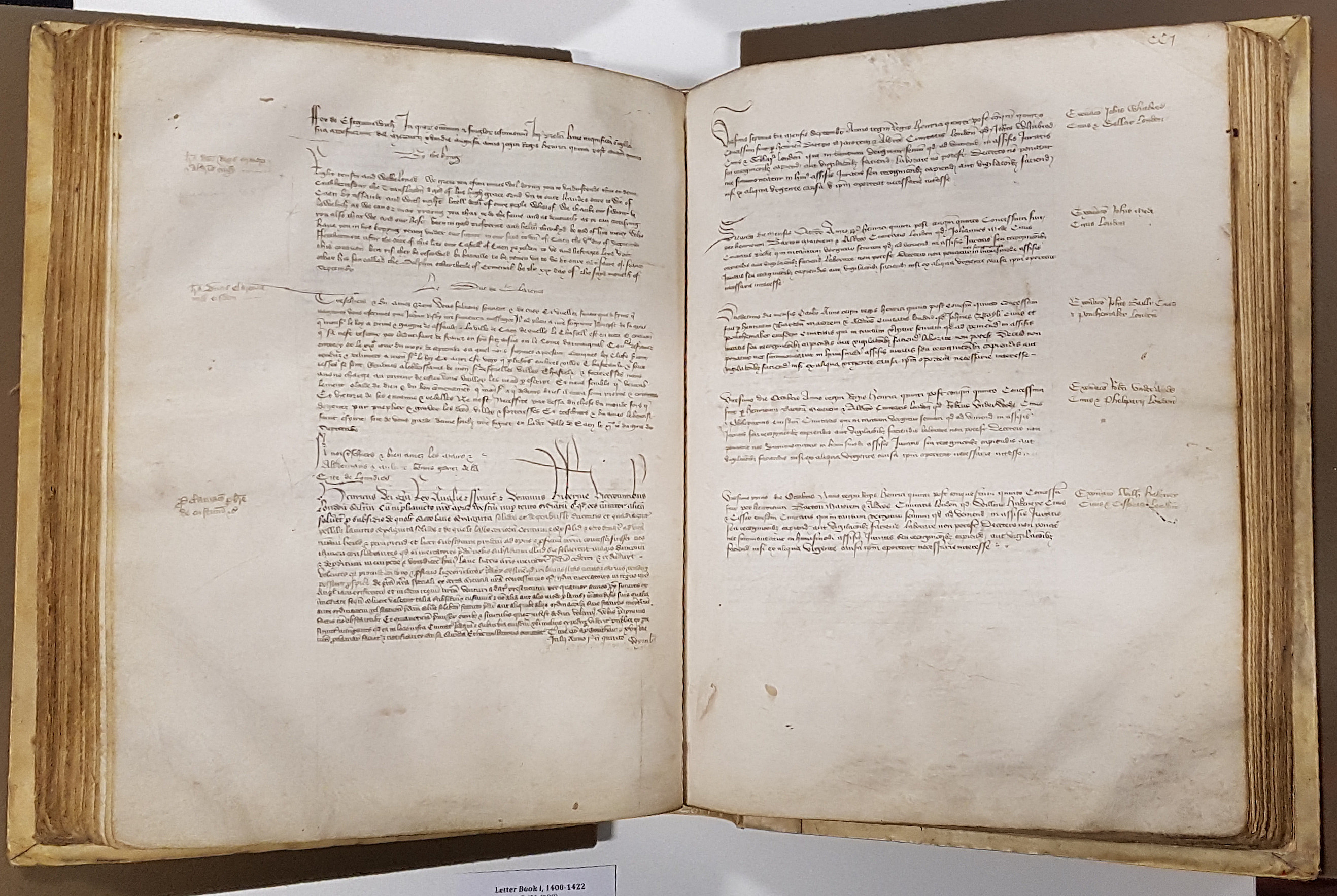 Two pages of Book I of the Letter-Books of the City of London, written during the period 1399-1421 AD, showing entries in English, French, and Latin, on display at the London Metropolitan Archives.